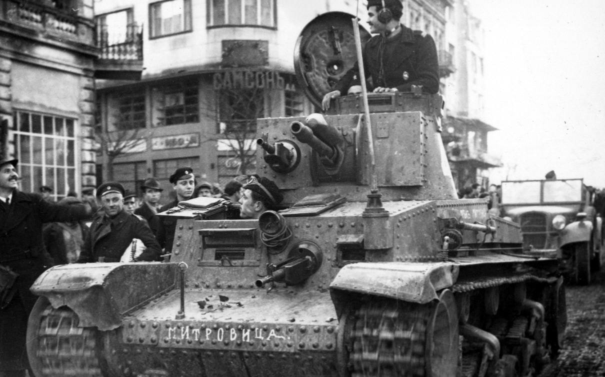 Bulgarian tanks in Sofia after the battles against the Wehrmacht in Eastern Serbia - Mitrovica.